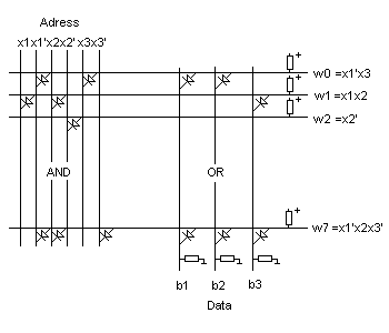 PLA